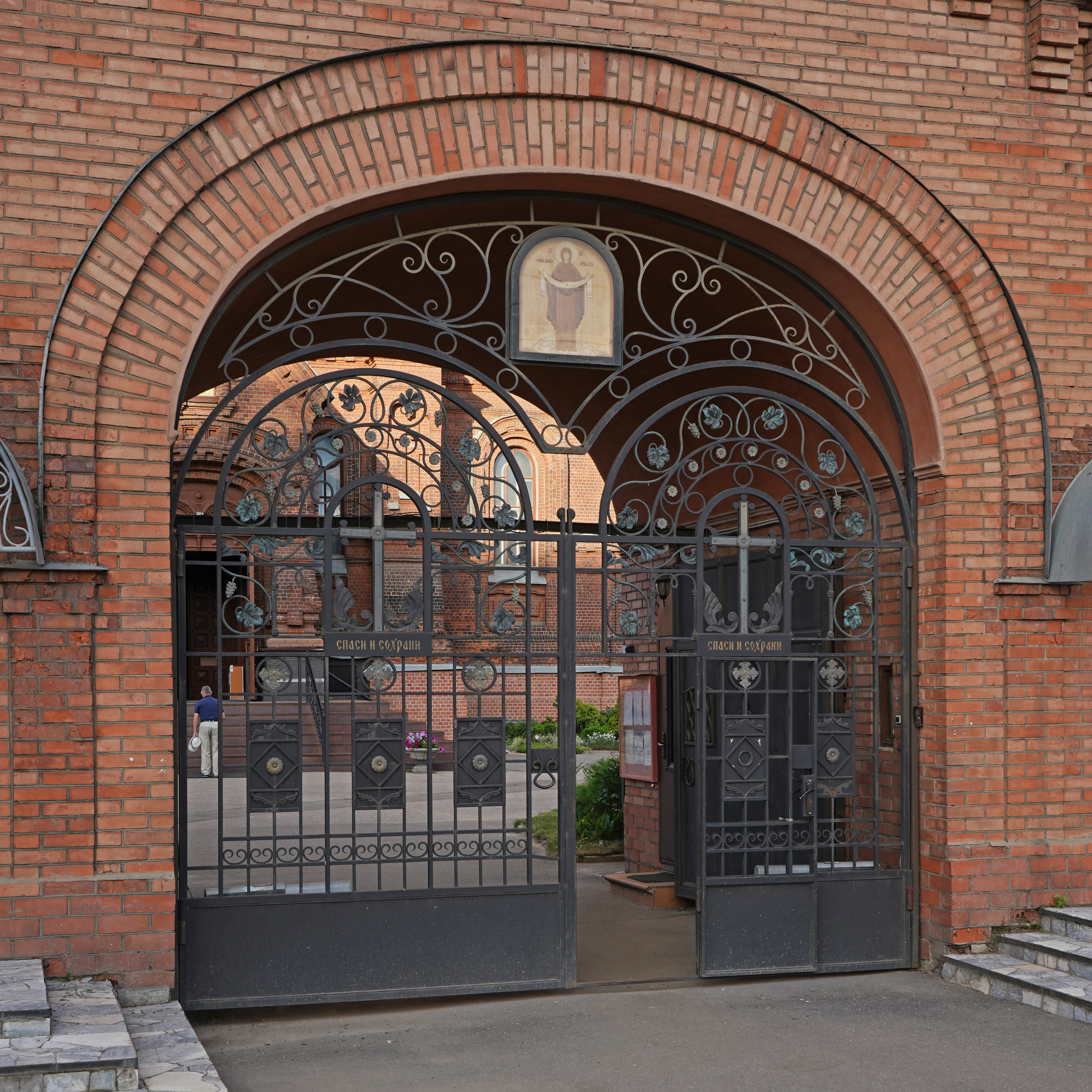 Vvedensky Monastery in Ivanovo, Russia